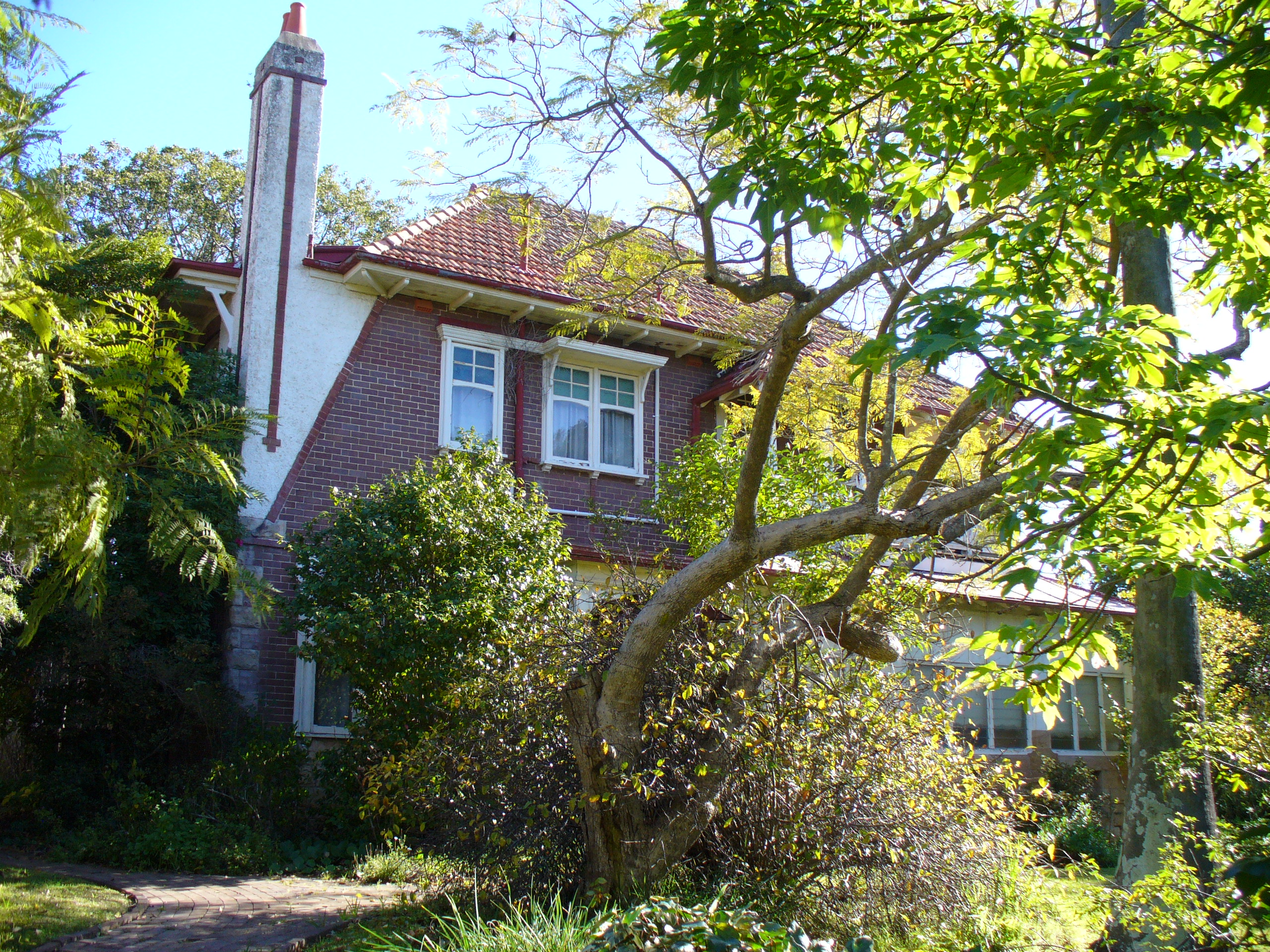 "Heatherwold" or "Braemar" mansion, in Eastwood, NSW, Australia (former girls school).